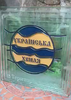 Terytoriya A - Ukrainska hvylya